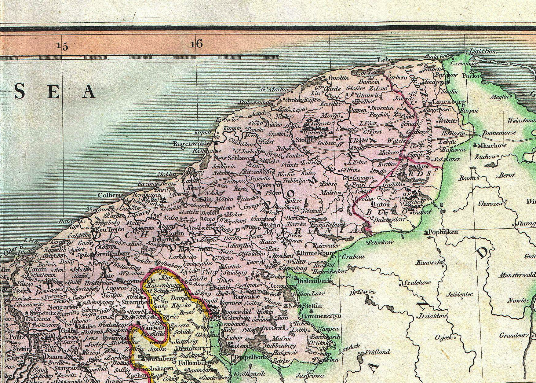 An attractive example of John Cary’s 1801 map of Upper Saxony, Germany. Covers from the Baltic Sea south to Franconia, Bavaria, Bohemia and Moravia. Extends eastward as far as Poland. Includes the Duchy of Silesia, the Duchy of Lusatia, Prussian Pomerania, Electoral Mark of Brandenburg, and the Margraviate of Meissen. Notes the cities of Berlin, Prague, Dresden, and Leipzig among many others. Highly detailed with color coding according to region. Shows forests, cities, palaces, forts, roads and rivers. All in all, one of the most interesting and attractive atlas maps of Upper Saxony to appear in first years of the 19th century. Prepared in 1801 by John Cary for issue in his magnificent 1808 New Universal Atlas .